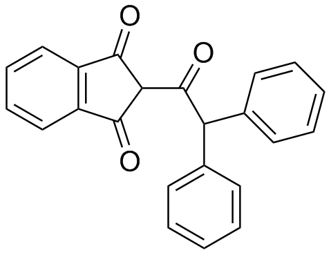 Diphacinone, an indandione anticoagulant.